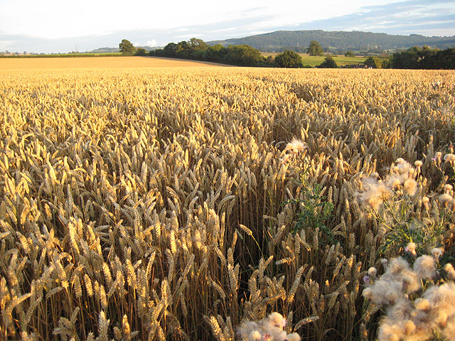 View over Bury Hill Towards East Dean - the northern edge of the Forest of Dean.